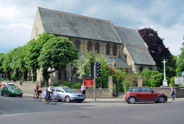 The Church of St Giles with St Peter, Cambridge As seen across the Northampton Street (A1033) - Chesterton Lane - Magdalene Street - Castle Street junction.